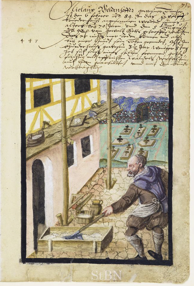 A German plaster at work on a half-timbered (fachwerk) house. Note the wooden staging with putlogs let into putlog-holes in the wall on one end and held by the uprights called standards.